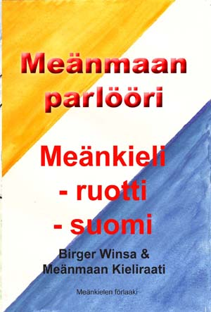 Parleur: Meänkieli - Swedish - Finnish